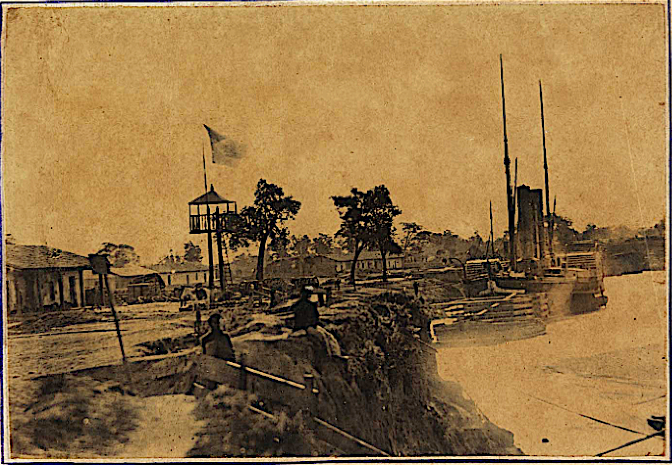 A Brazilian flag flies over the watchtower of captured Humaitá. On the right a Brazilian ironclad is moored to the river bank.